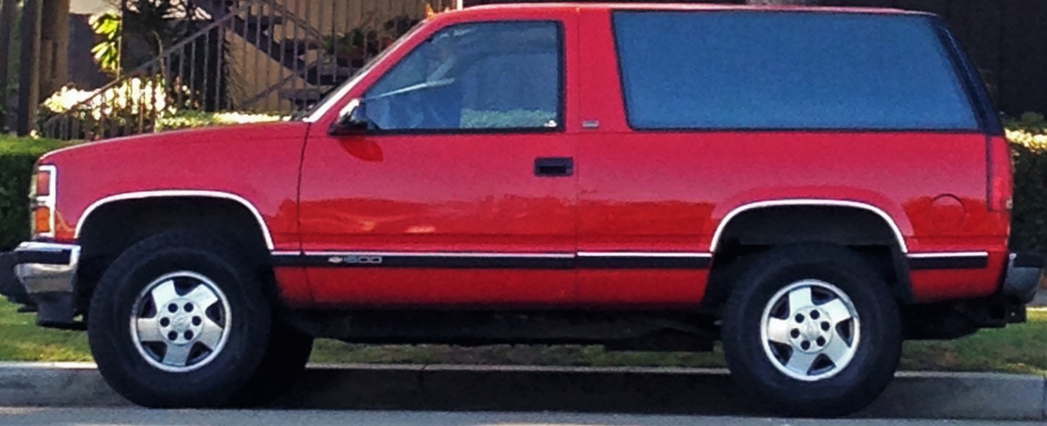 3-door K5 Tahoe-based Blazer